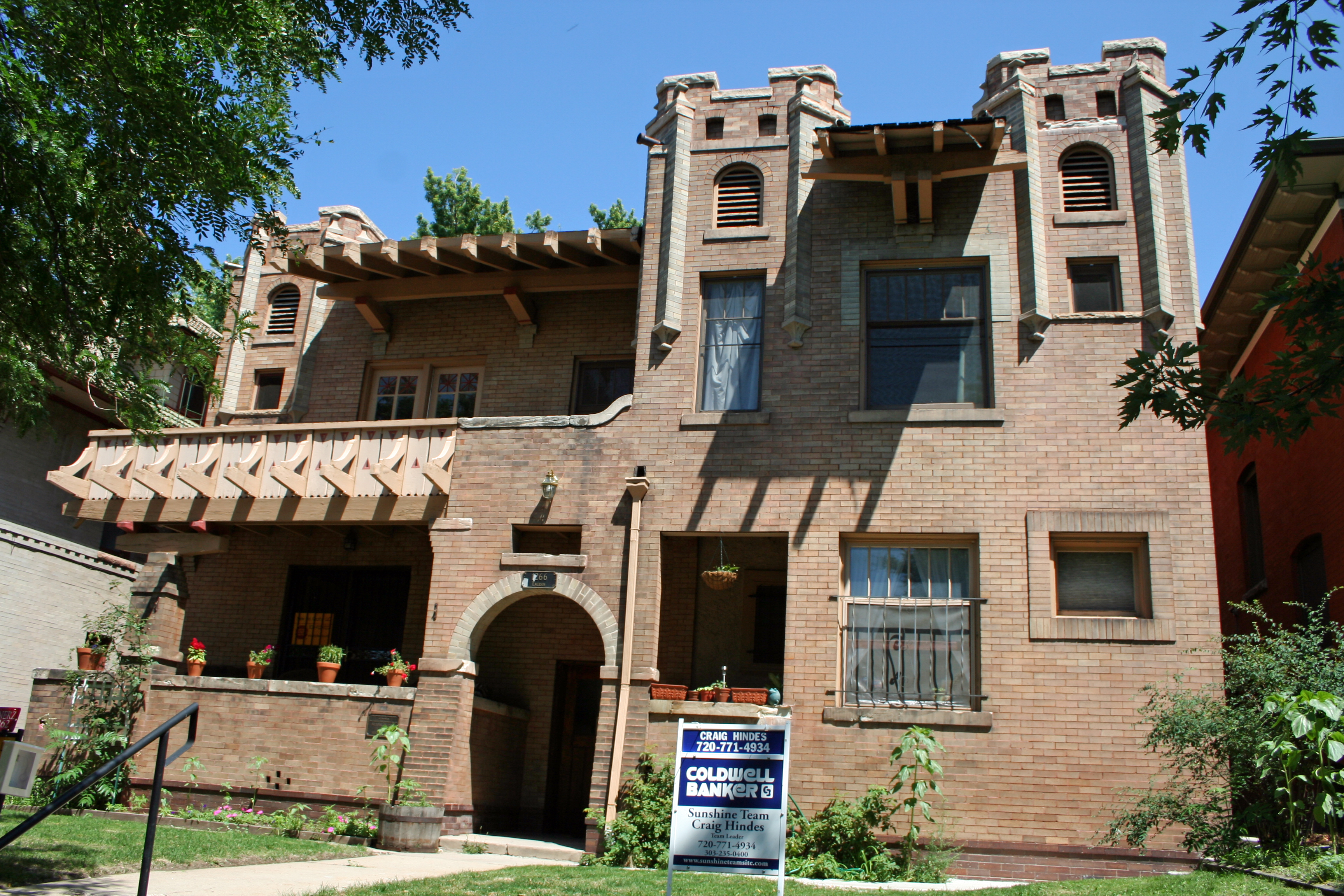 Eppich Apartments, located at 1266 Emerson Street in Denver, Colorado